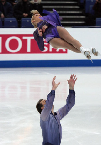 2009 European Figure Skating Championships - Tatiana Volosozhar and Stanislav Morozov